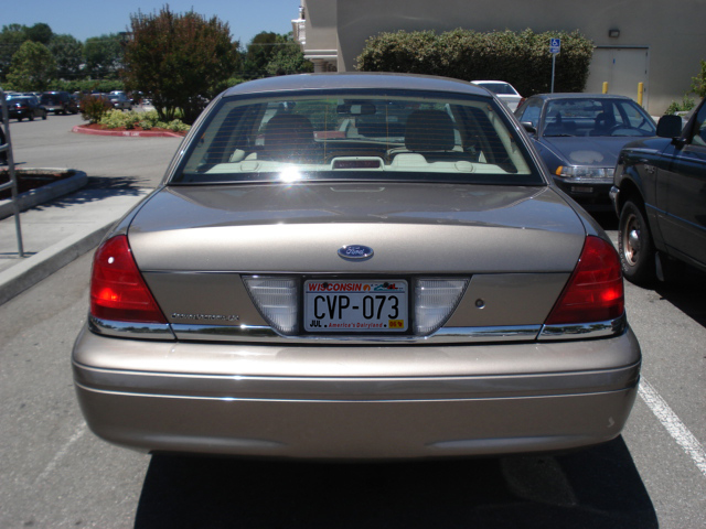 2005 Ford Crown Victoria LX, Rear